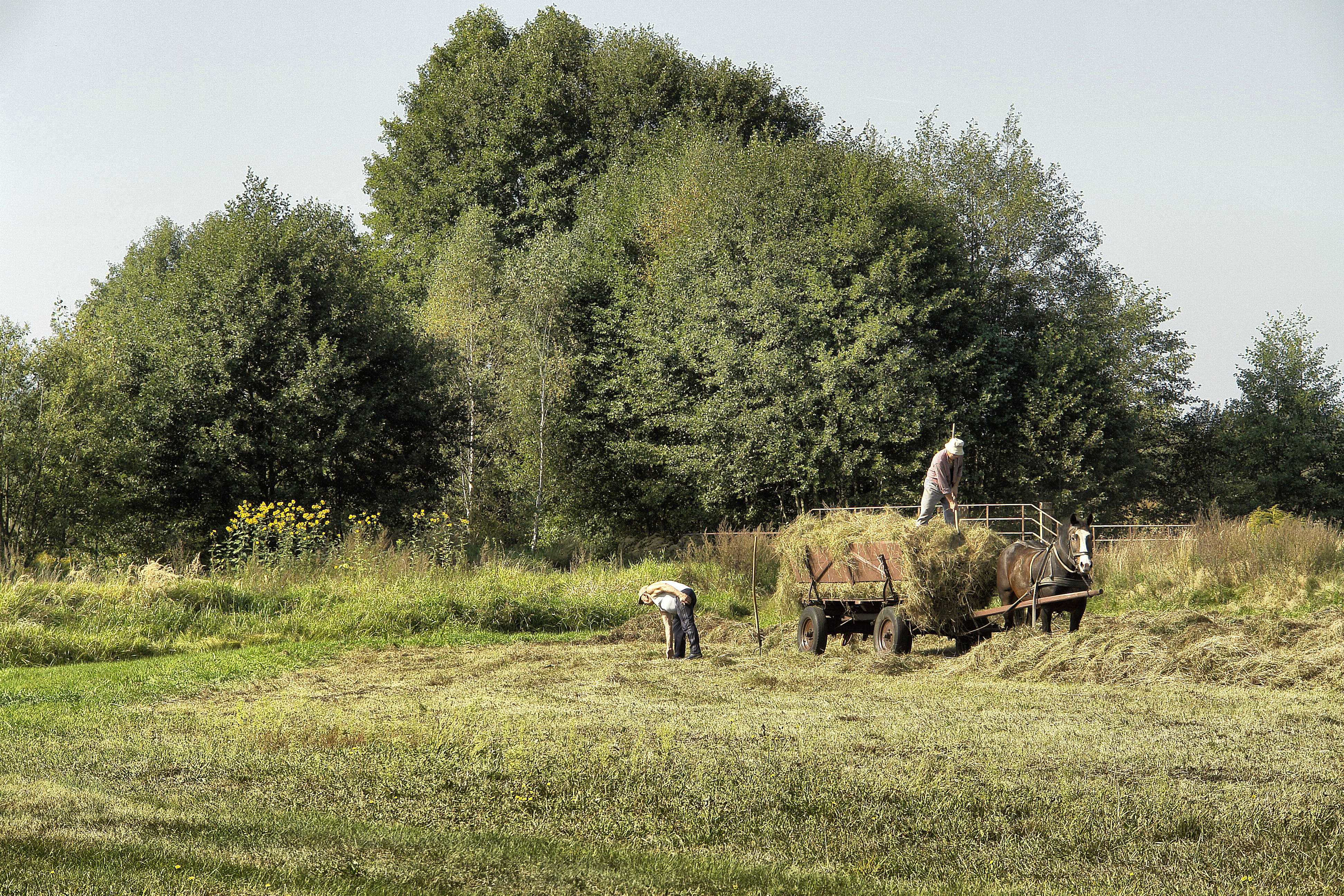 Hay harvesting in south-west Poland